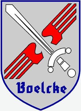 Internal coat of arms of the Bundeswehr (Armed Forces of the Federal Republic of Germany). → Remarks on naming and categorization scheme Wappen des Jagdbombergeschwaders 31 "Boelcke" (Bundeswehr)